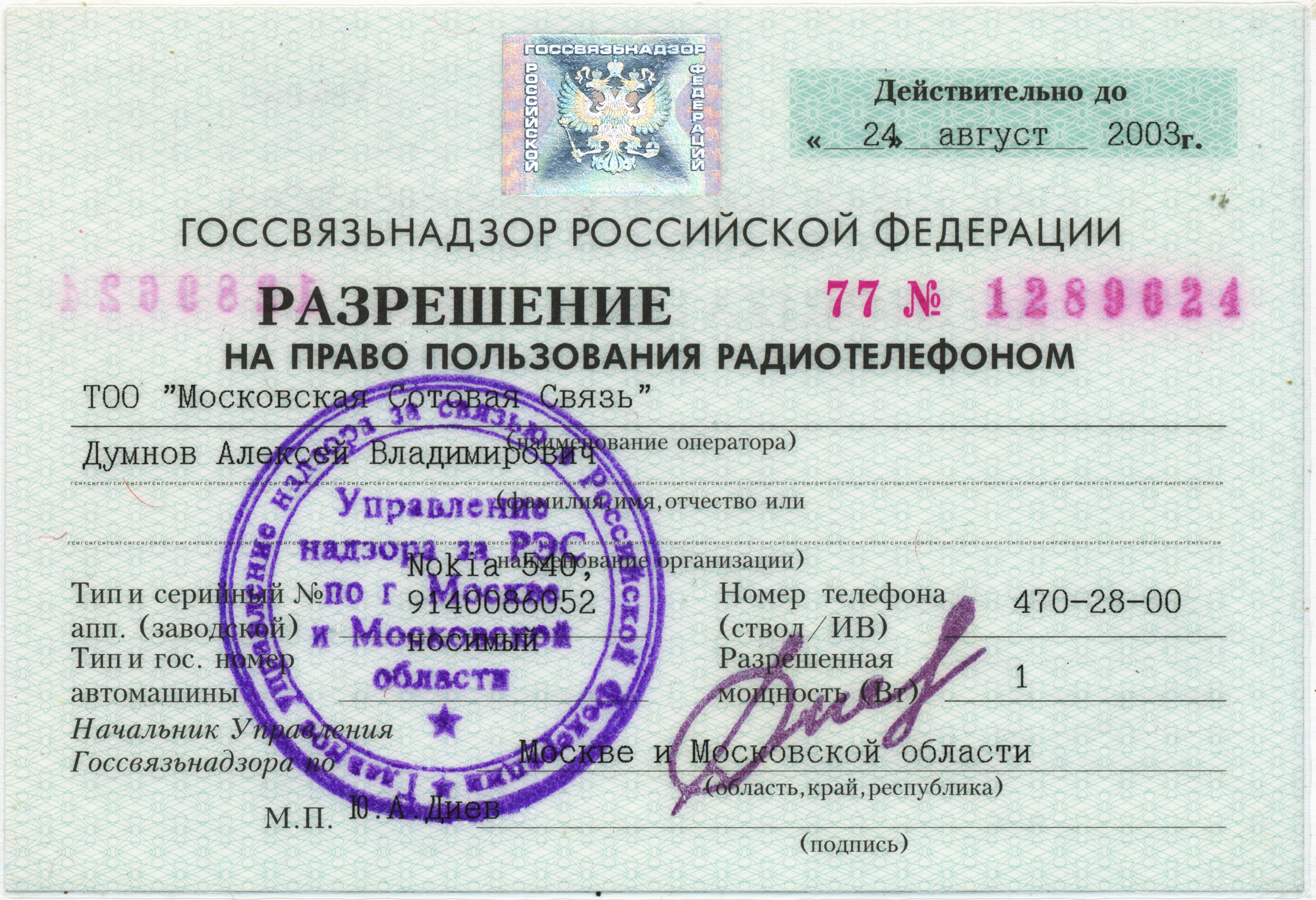 Authorization for the right to use radio phone (2002)